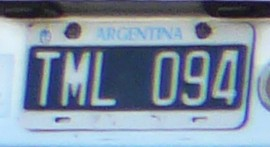 Typical Argentine vehicle registration plate, 1994 onwards scheme.